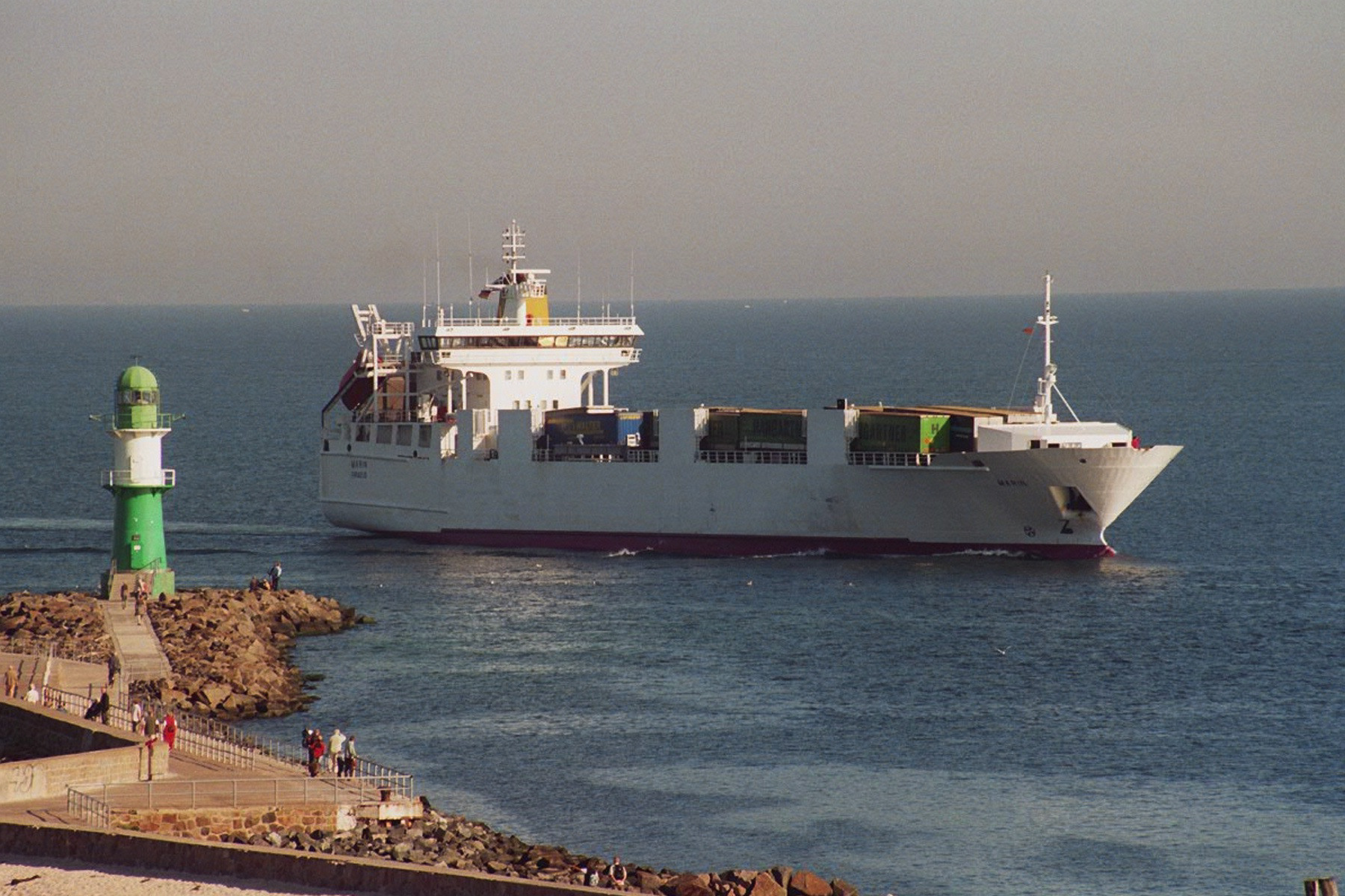 This image shows the MARIN, a (coaster) running into the port of Rostock.